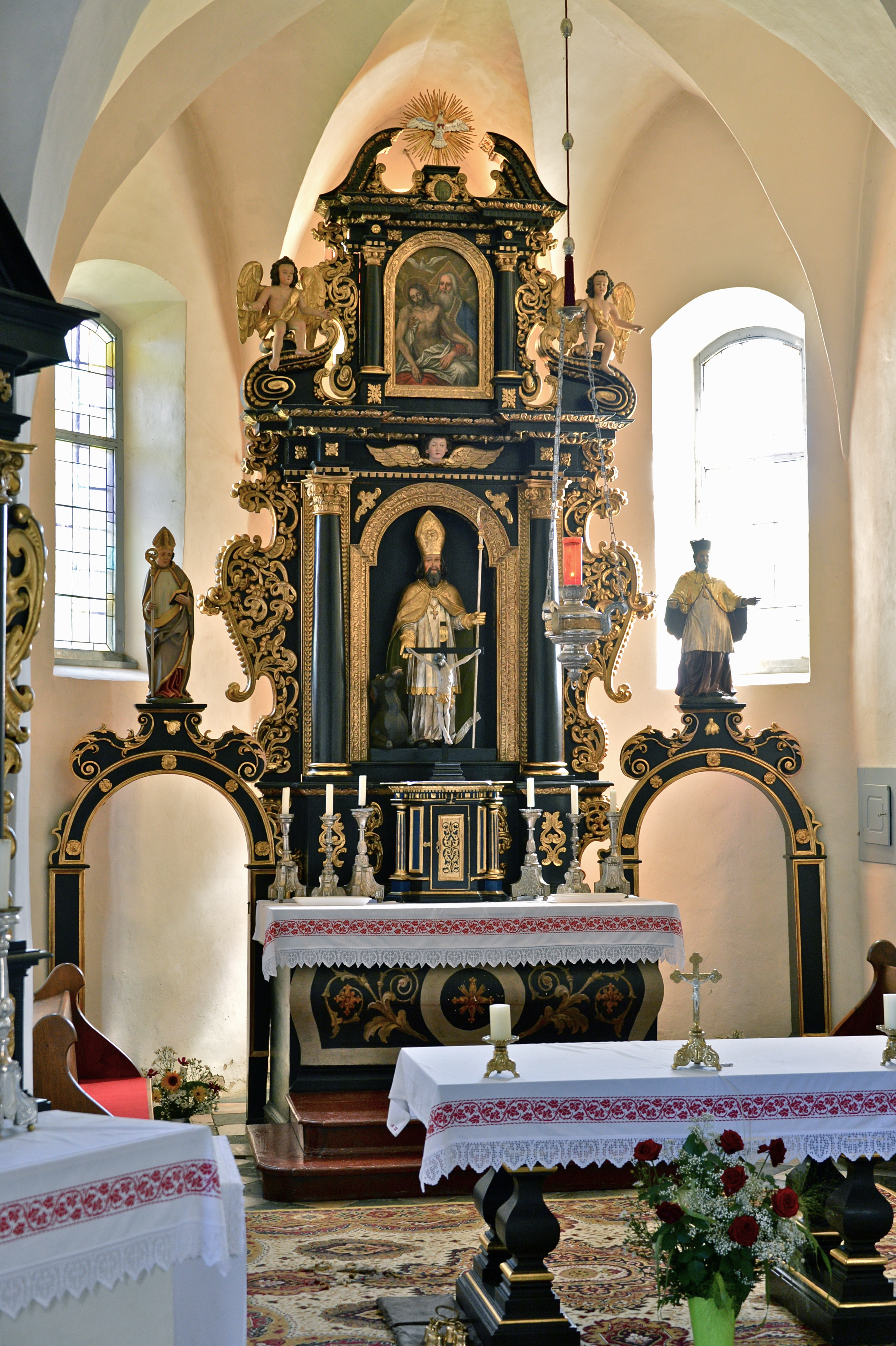 High altar with sacrifice portals at the parish church Saint Giles at Tigring, market town Moosburg, district Klagenfurt Land, Carinthia / Austria / EU